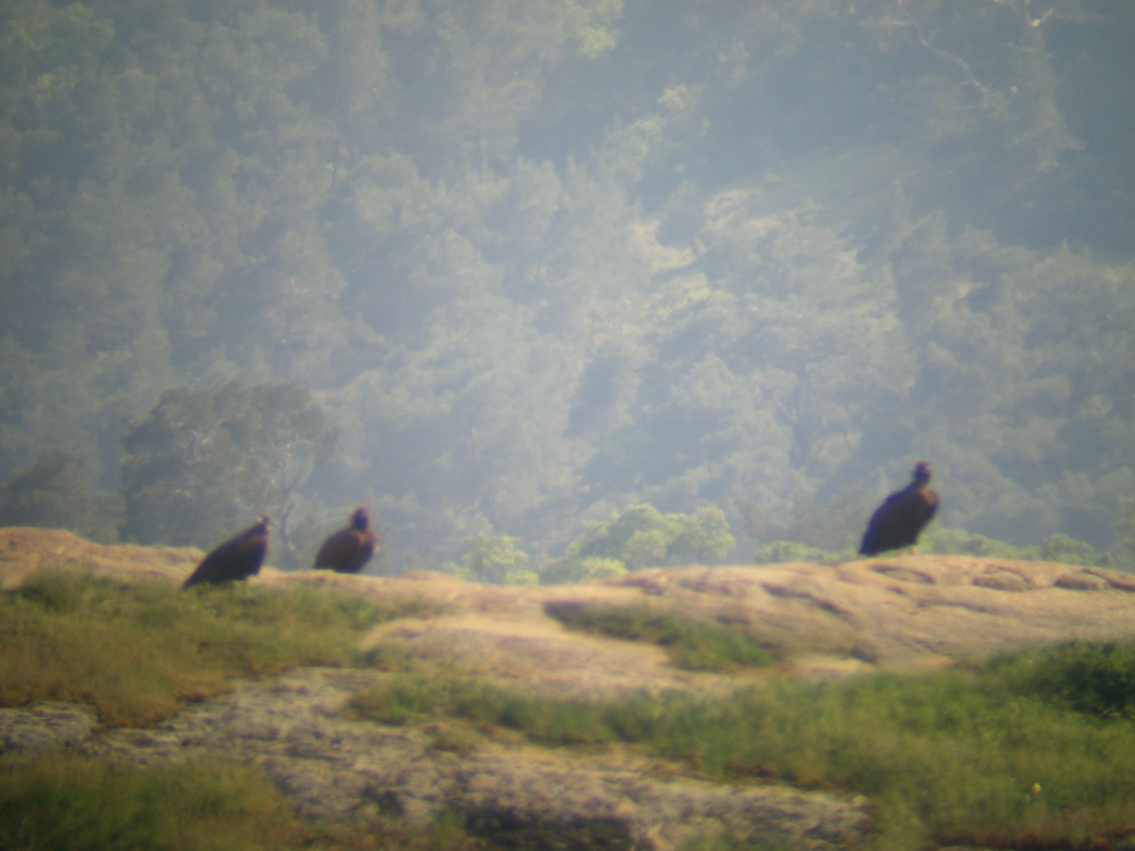 Zoomed in photo of vultures in Dadia forest, Evros